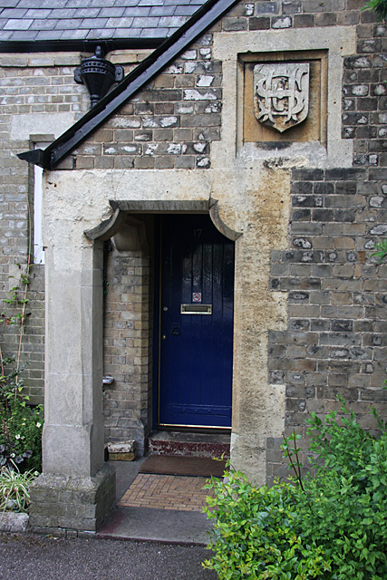 Stables, Avenue House Detail of a door into part of the Stables. Presumably the HCS monogram stood for Henry Charles Stephens, son of the inventor of Stephens Ink.